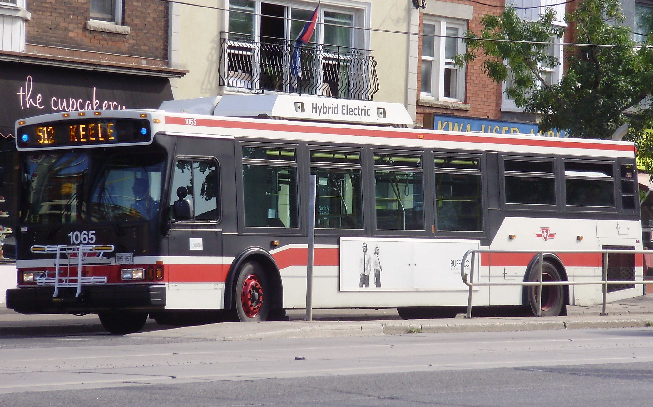 The Toronto Transit Commission's bus #1065, an Orion Bus Industries Orion VII HEV LF bus, travelling westbound on St. Clair Avenue West serving the portion of the 512 St. Clair route where streetcars have yet to be returned to service.